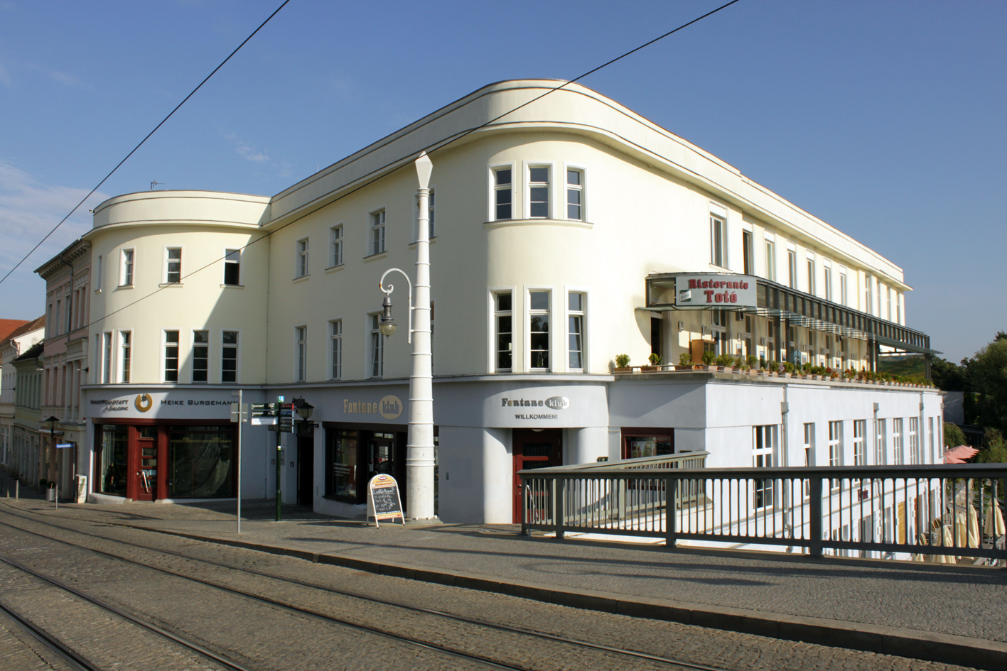 The Fontaneklub-Building in the Spitta Building, later "Havelterrassen" in Brandenburg an der Havel.